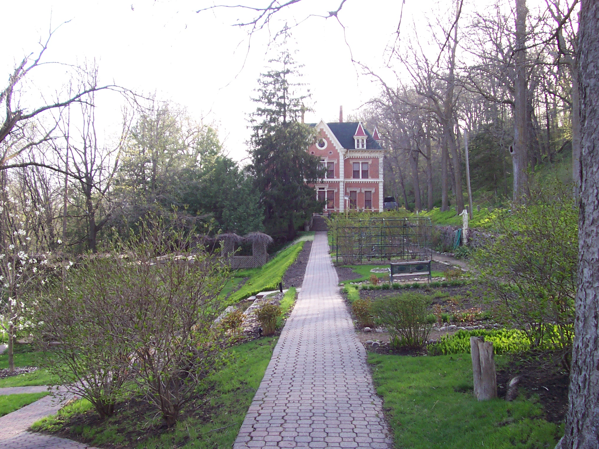 Picture taken by me of the Schell mansion next to the brewery.